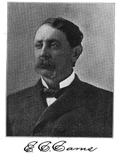 Photo of Edmund C. Carns, 2nd lieutenant governor of Nebraska (1879-1883)